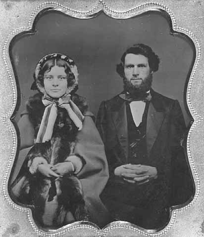 Future Minnesota Governor Horace Austin and wife Mary Lena Morill on their wedding day.